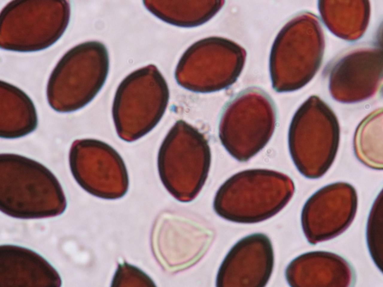 Panaeolina foenisecii (Pers.) Maire Image location: Zahedan, Sistan and Balouchestan, Iran [admin – Sun Nov 14 14:14:09 +0000 2010]: Changed location name from ‘Zahedan, sistan and balouchestan, Iran’ to ‘Zahedan, Sistan and Balouchestan, Iran’ Recognized by sight: In grass, hygrophanous cap Based on microscopic features: Spore shape, with germ pore, dark brown color For more information about this, see the observation page at Mushroom Observer.